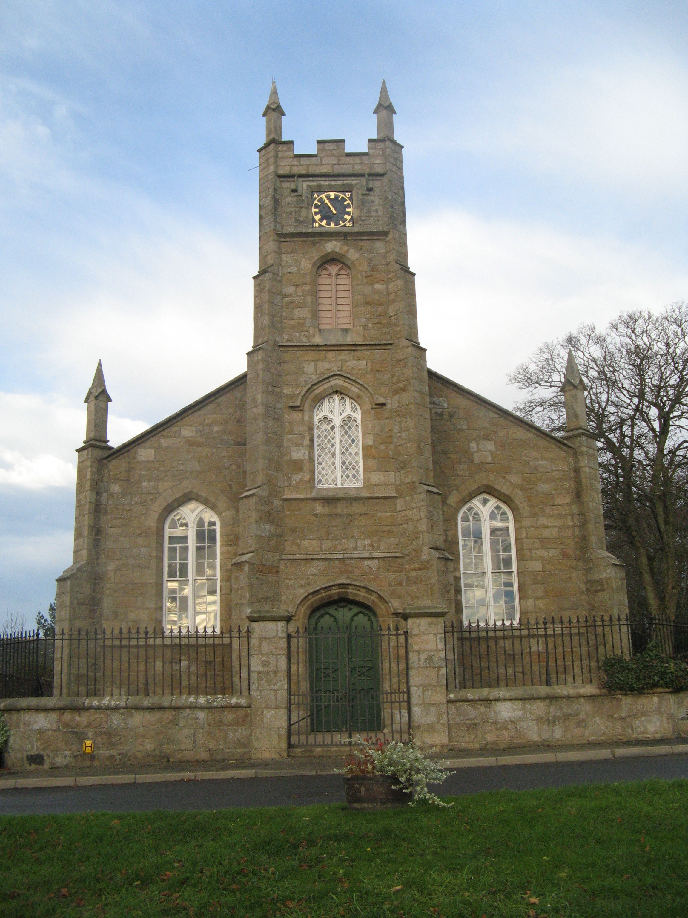 Udny Parish Church